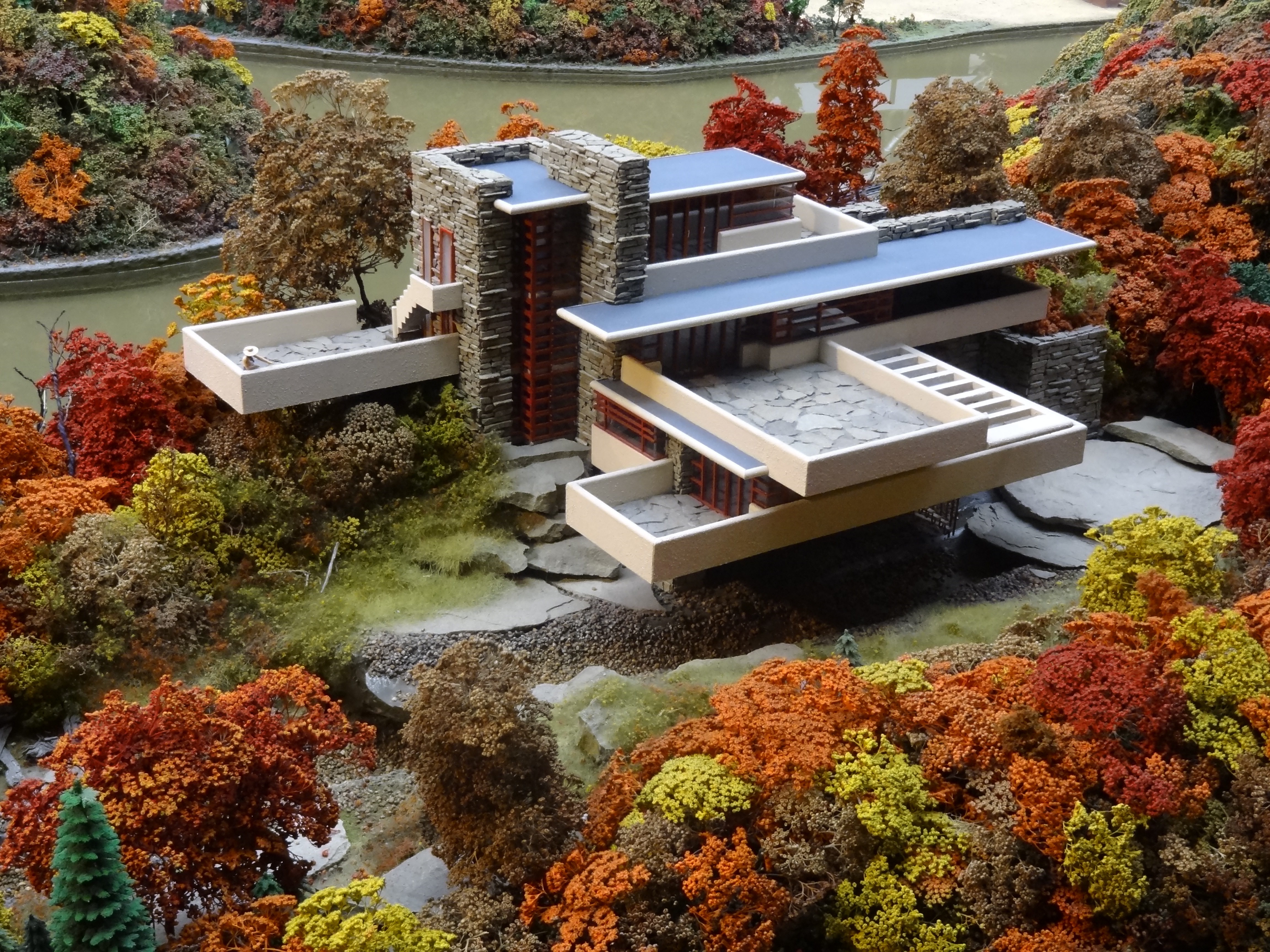 A miniature replica of the Fallingwater building at MRRV, Carnegie Science Center in Pittsburgh